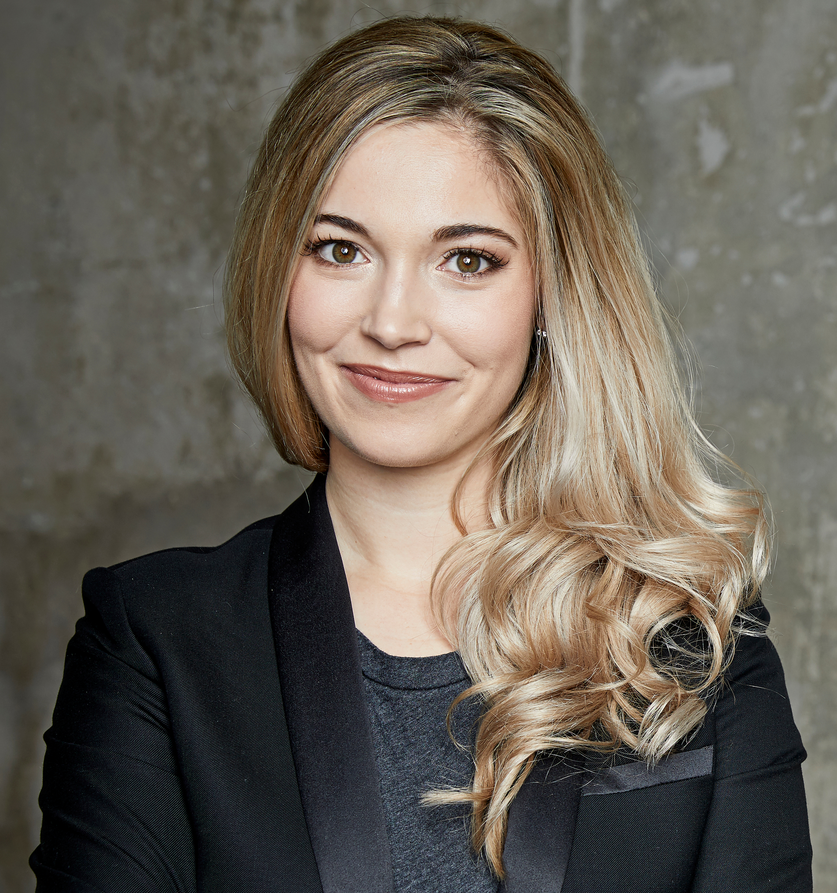 julia shaw